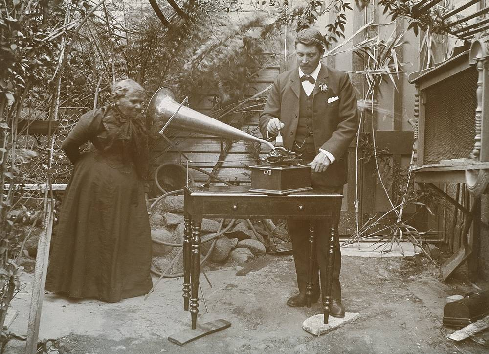 Horace Watson recording the songs of Fanny Cochrane Smith, considered to be the last fluent speaker of a Tasmanian language, using an Edison phonograph. The original photograph and a recording are at the Tasmanian Museum and Art Gallery.